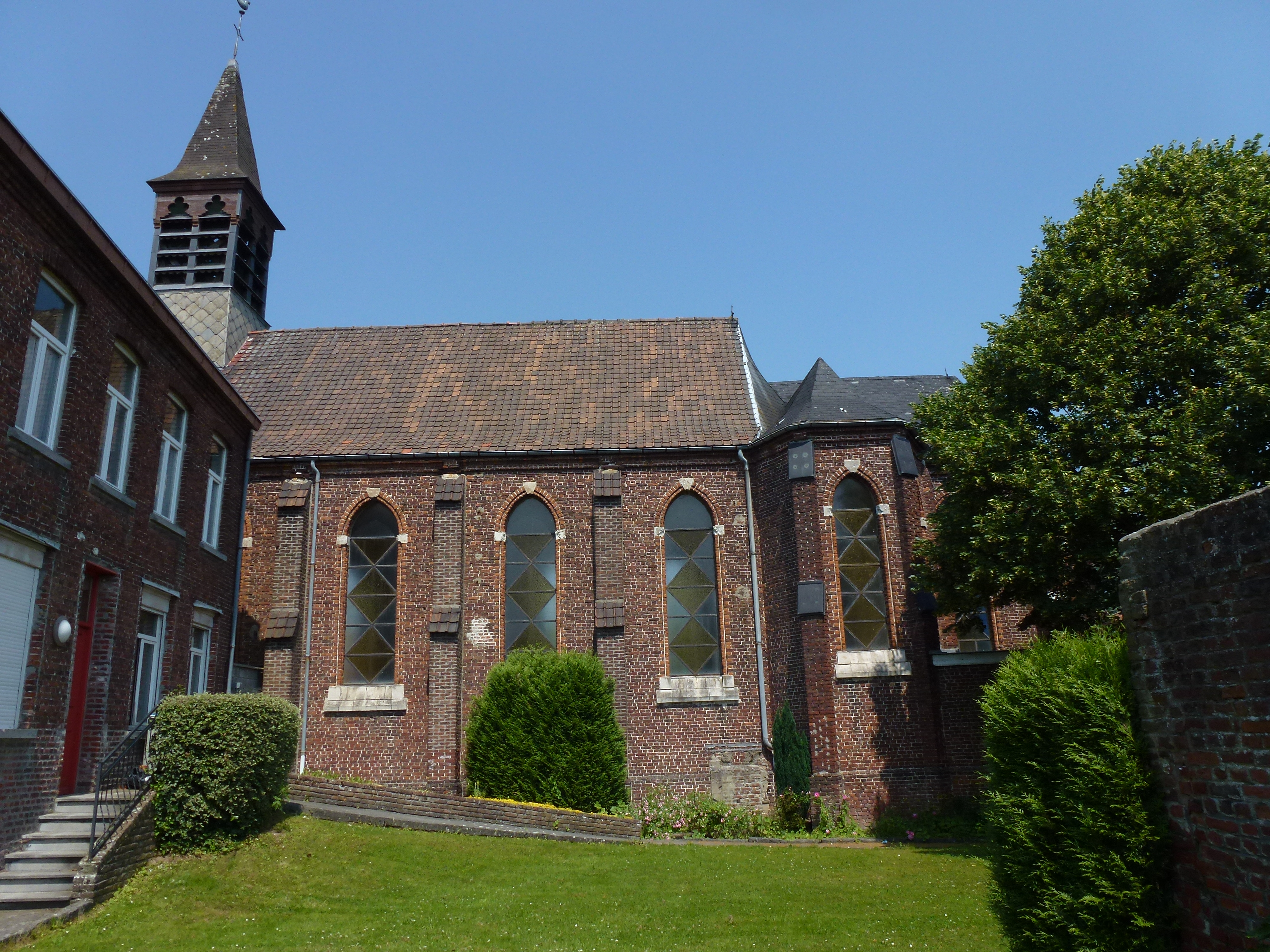 La Neuville (Nord, Fr) église